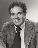 Ken Kramer